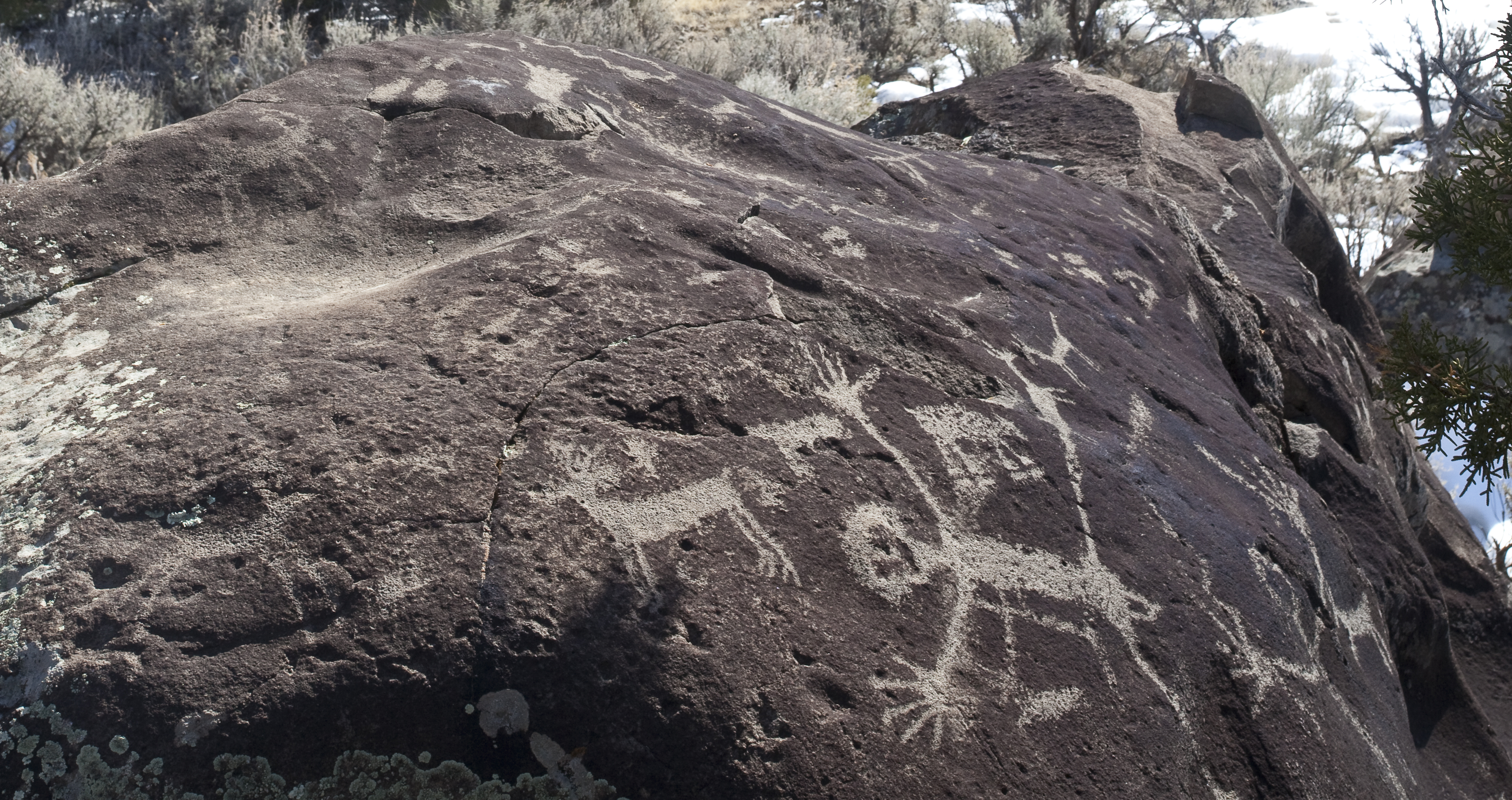 The Río Grande Wild and Scenic River, located within the Río Grande del Norte National Monument, includes 74 miles of the river as it passes through the 800-foot deep Río Grande Gorge. Flowing out of the snowcapped Rocky Mountains in Colorado, the river journeys 1,900 miles to the Gulf of Mexico. Here the river flows in a rugged and scenic part of northern New Mexico. The river was made a part of the National Wild and Scenic River System in 1968; among the first eight rivers Congress designated as Wild and Scenic. The river gorge is home to numerous species of wildlife, including big horn sheep, river otter, and the Río Grande cutthroat trout. The Río Grande Wild and Scenic River provides a wide variety of recreational opportunities, luring anglers, hikers, artists, and whitewater boating enthusiasts. Two developed recreation areas are located along the river: Wild Rivers on the north and Orilla Verde in the south. In addition to these scenic recreation areas, a spectacular vista of the gorge is seen from the High Bridge Overlook where highway 64 crosses. Learn more about the area and plan your trip: Photo: Bob Wick, BLM California